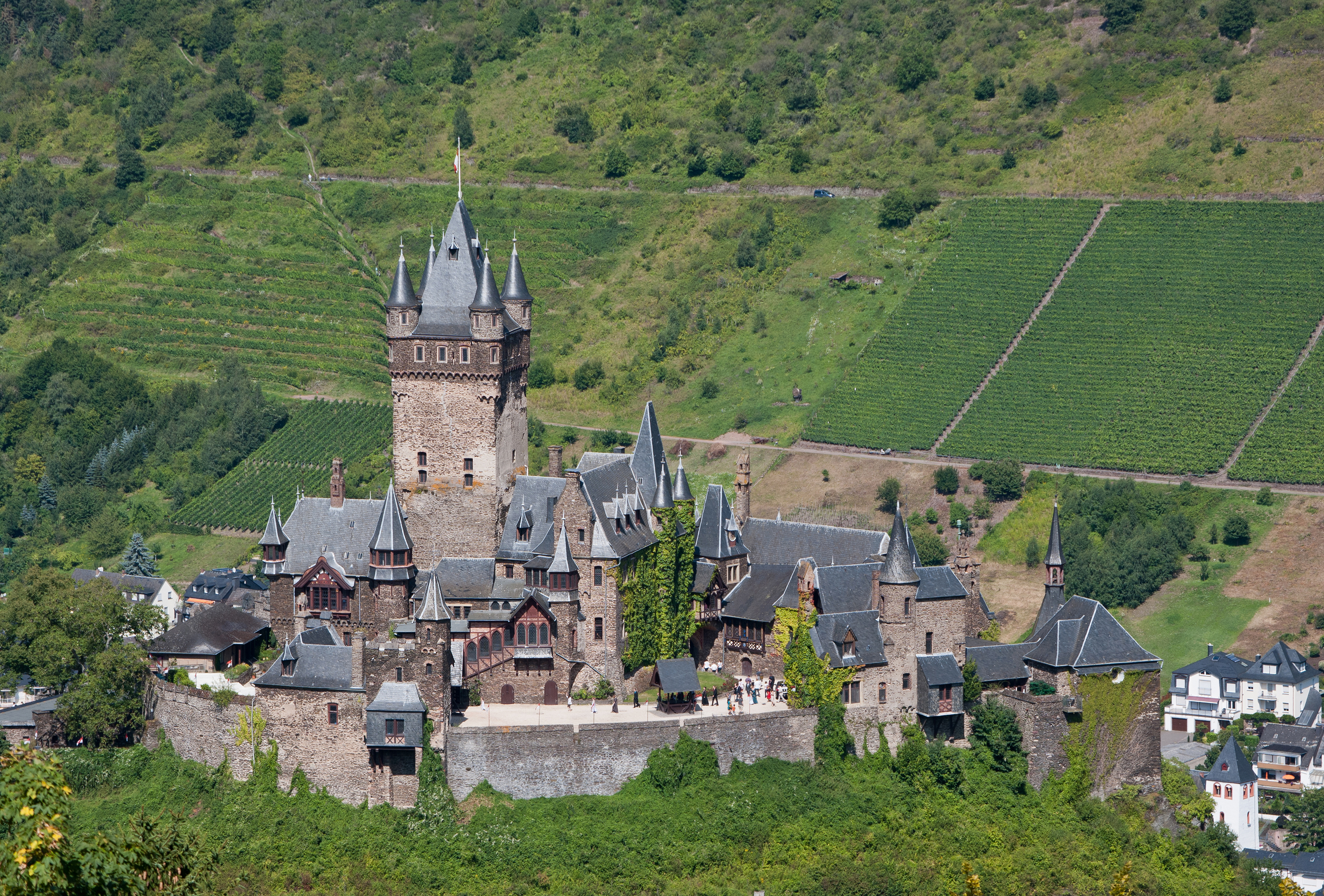 Cochem (Rhineland-Palatinate, Germany) – Imperial Castle – southwest view Dieses Bild zeigt ein Baudenkmal. Diese Fotografie wurde mit einer Nikon D3000 erstellt.